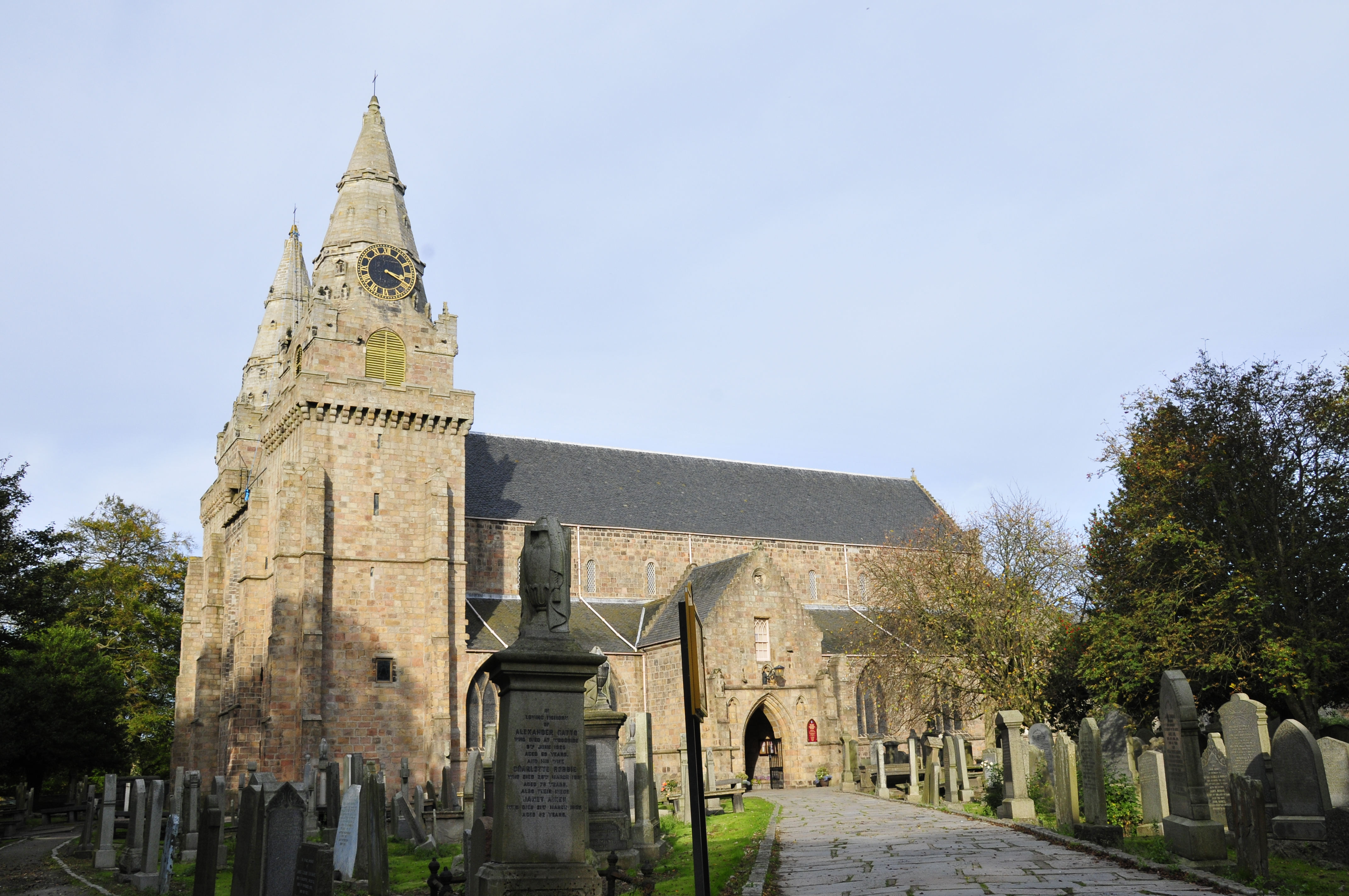 Saint Marchar's Cathedral, Old Aberdeen